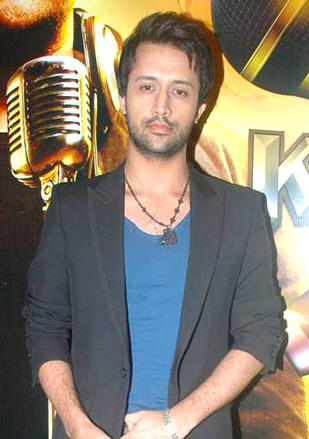 Photo Of Atif Aslam From The Himesh and Atif Aslam at the launch of Sahara One's new show